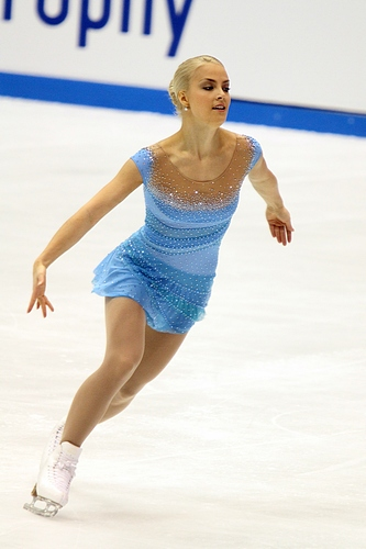 Kiira Korpi at the 2010 NHK Trophy.